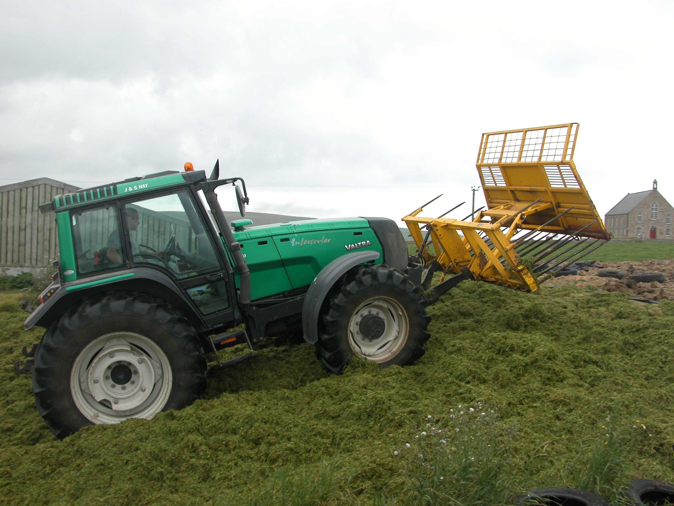 A Valtra 8950 tractor compacting grass silage, Birsay, Orkney, Scottland